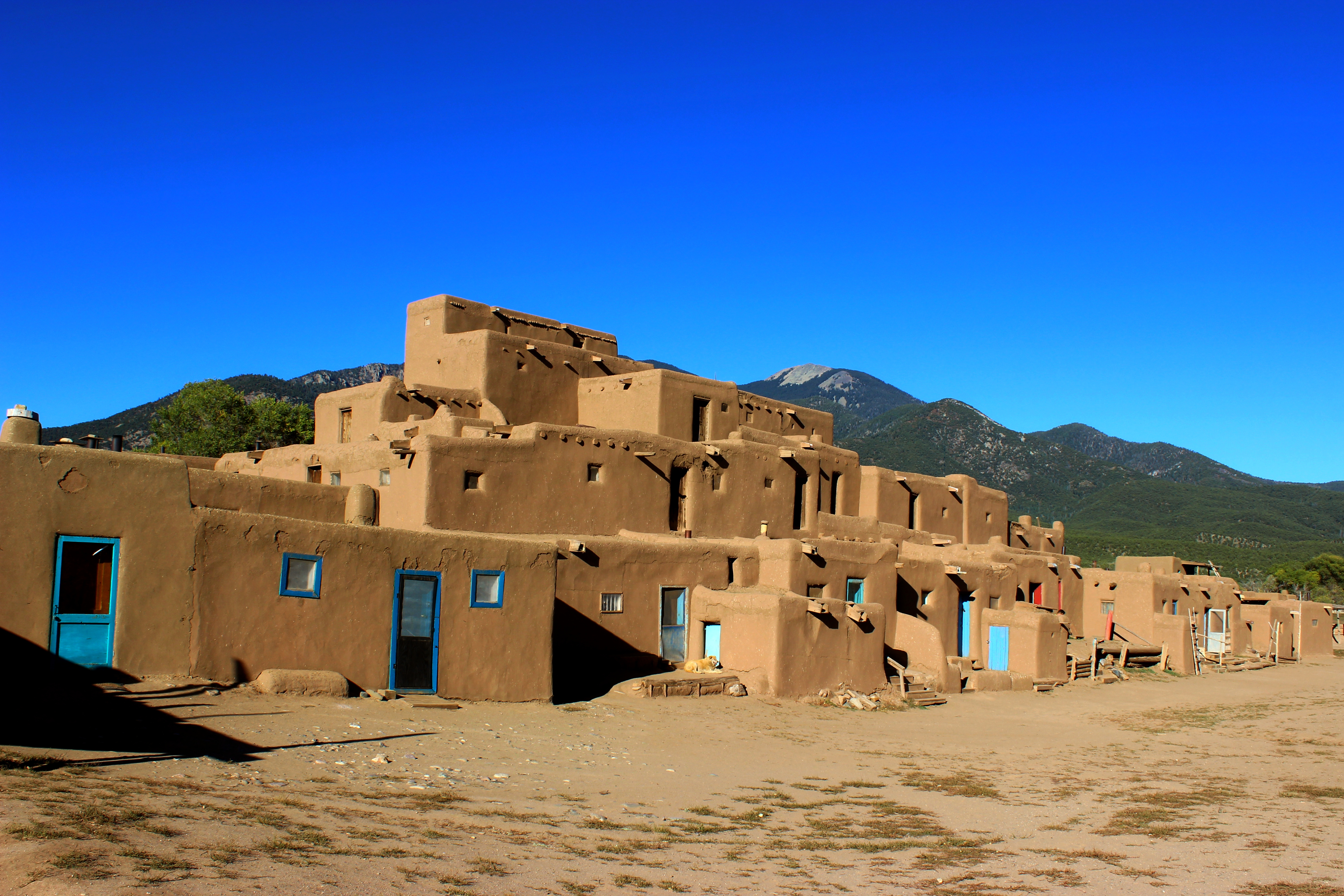 The Taos Pueblo North Complex in New Mexico. This ancient pueblo belongs to a Taos-speaking Native American tribe of Puebloan people, and is one of the oldest continuously inhabited communities in the United States.